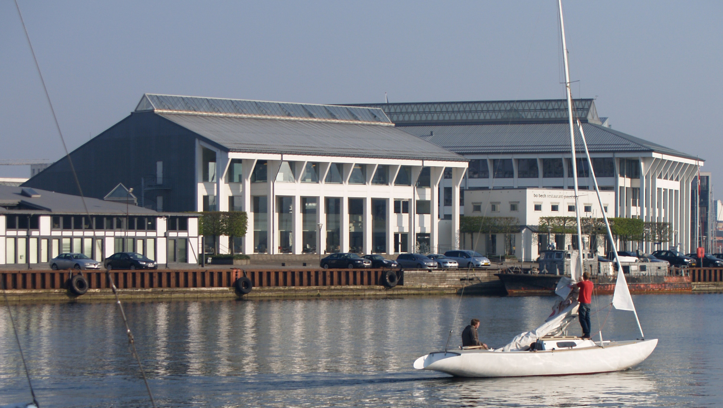 Paustian house, Copenhagen. Architect: Jørn Utzon.